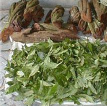 chacruna and ayahuasca